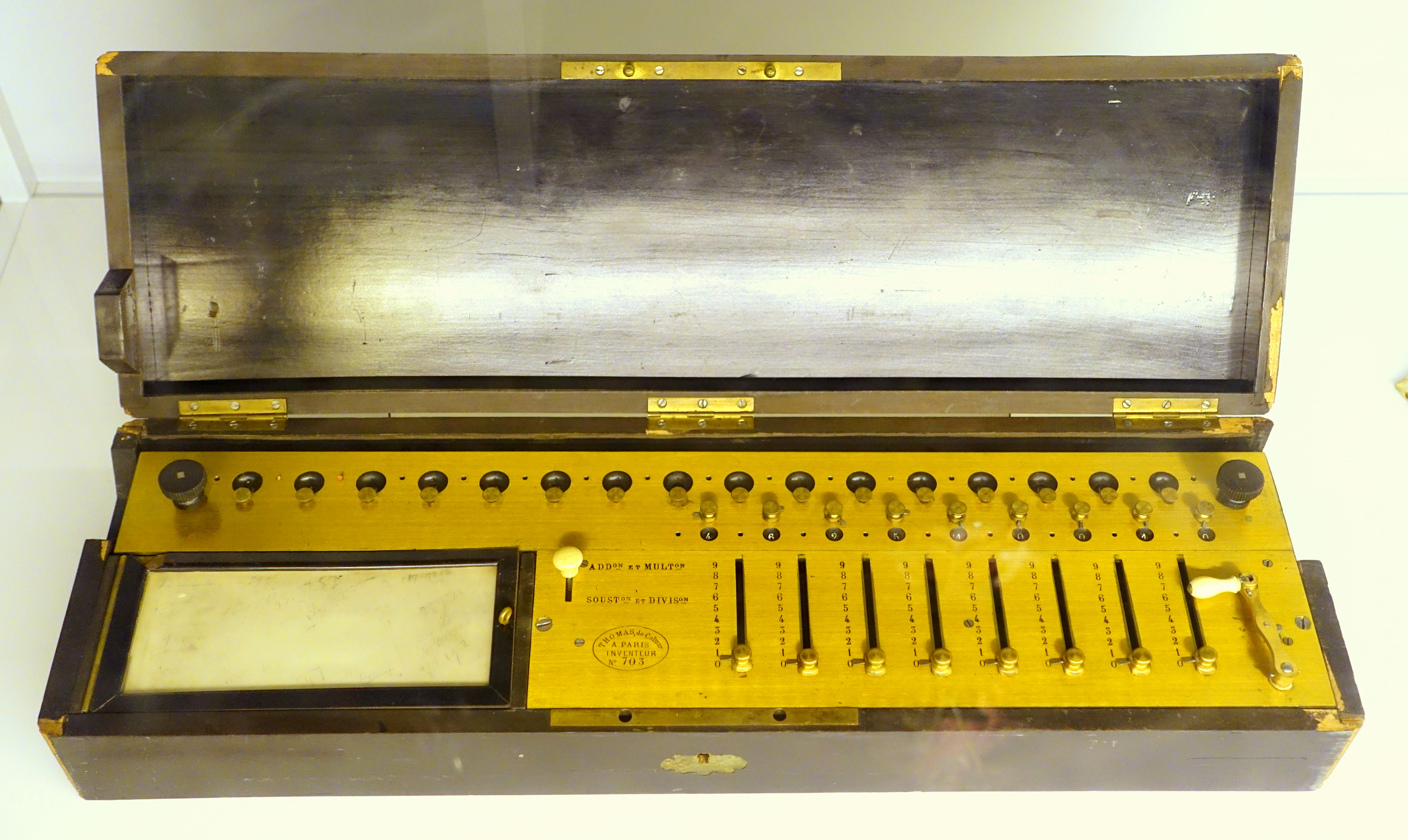 Exhibit in the Tekniska museet, Stockholm, Sweden. This work is old enough so that it is in the public domain.